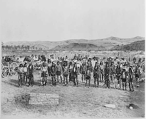 Big Foot's band of Miniconjou Sioux in costume at a dance, Cheyenne River, South Dakota, 08/09/1890